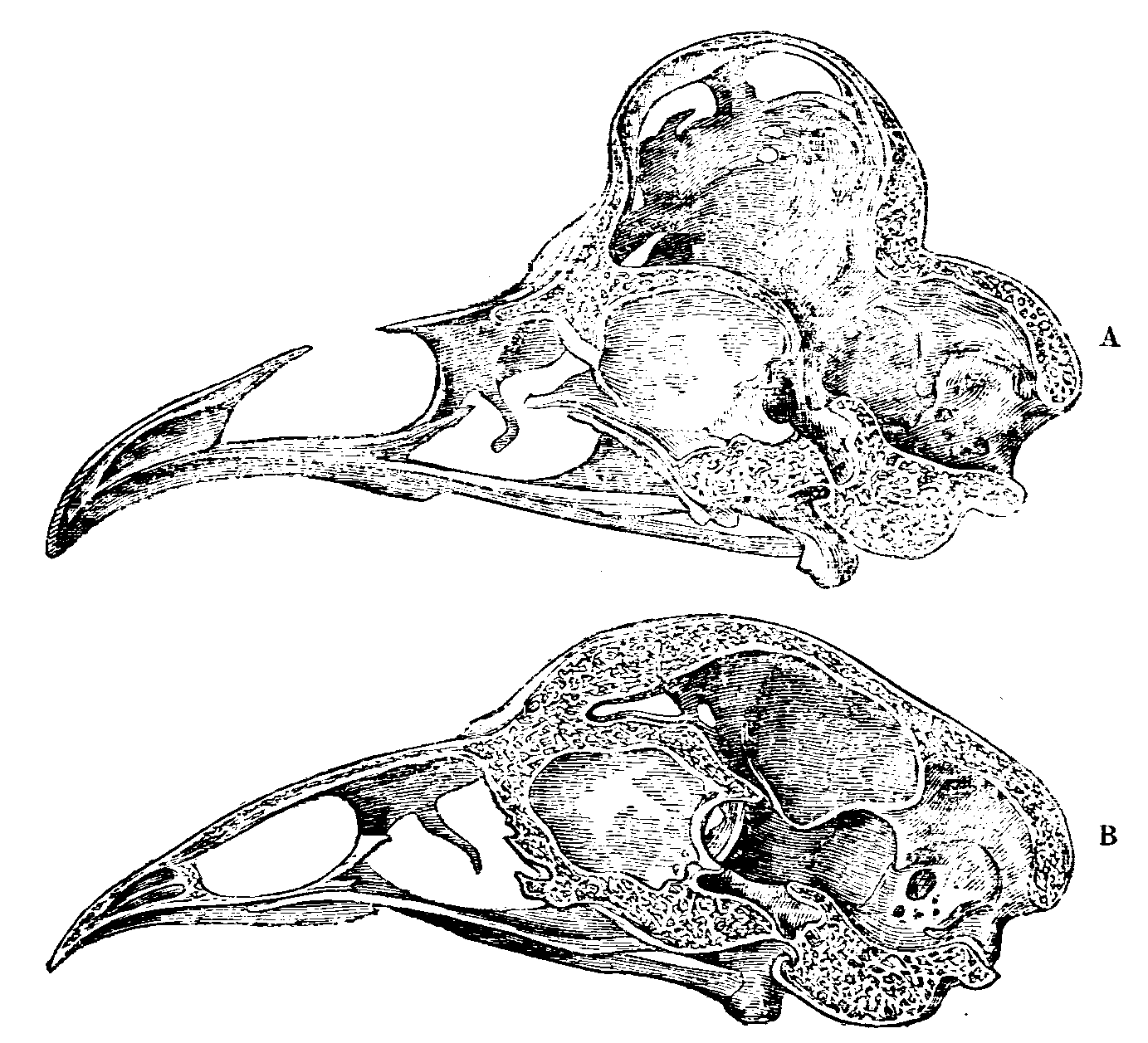 Longitudinal sections of Skull viewed laterally. A. Polish Cock. B. Cochin Cock, selected for comparison with the above from being of nearly the same size.